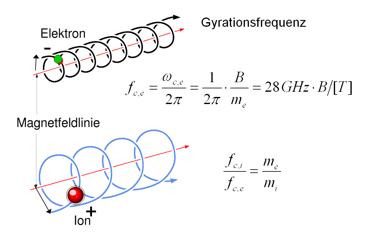 Schematic view of the gyration motion (cyclotron motion) of electrons and protons in a magnetic field including the formula for their cyclotron frequencies, omega_c. Note that the dimensions of the particle orbits are not scaled.